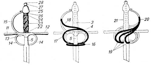 Degen Griff (court swords hilts diagramm)